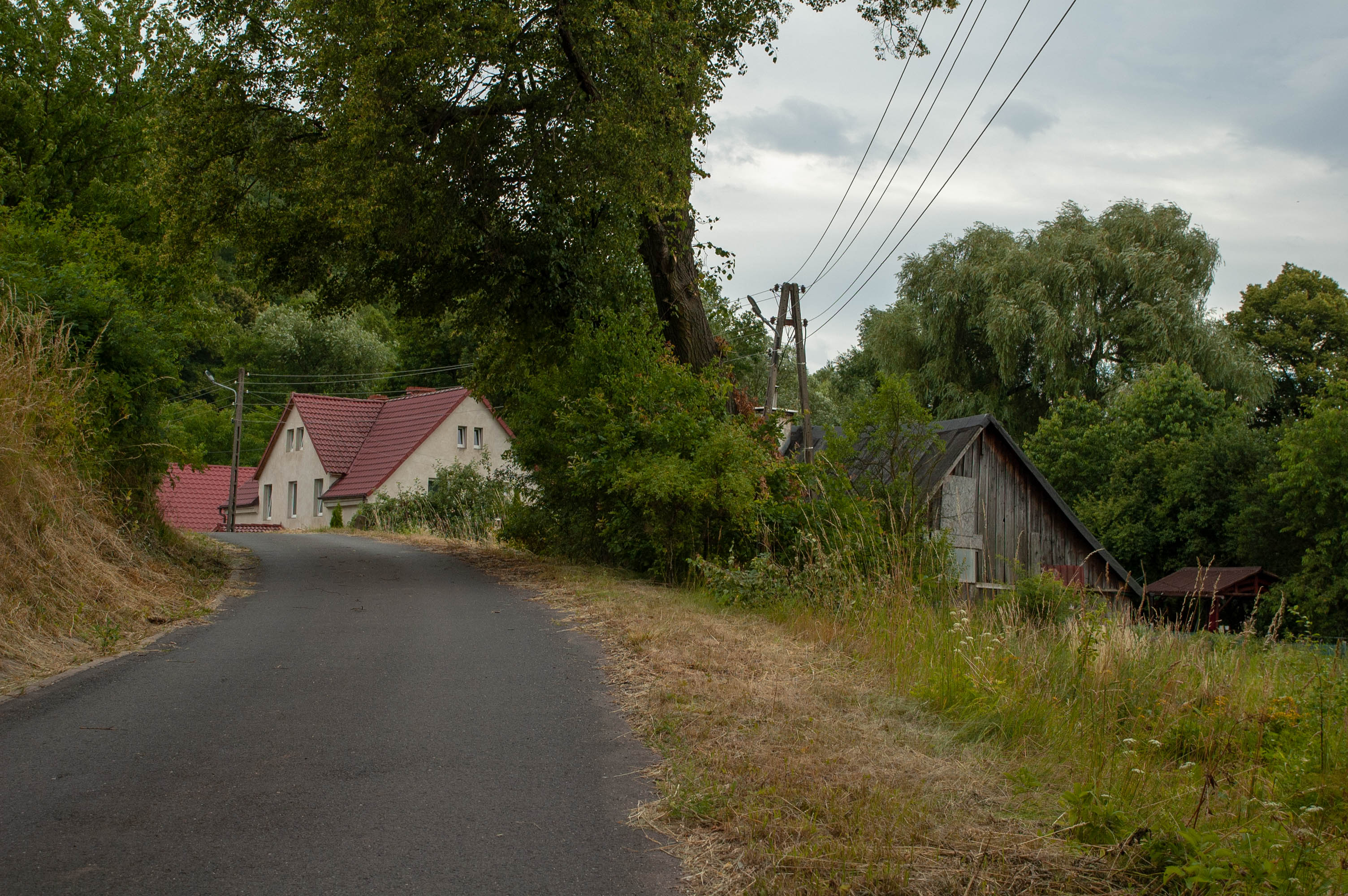 This photograph was created as a part of Wikiexpedition Lower Silesia, a project supported by Wikimedia Poland grant.